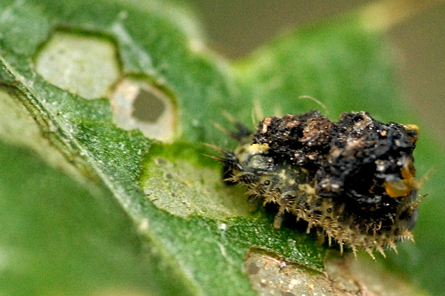 Cassida rubiginosa from Commanster, Belgian High Ardennes .